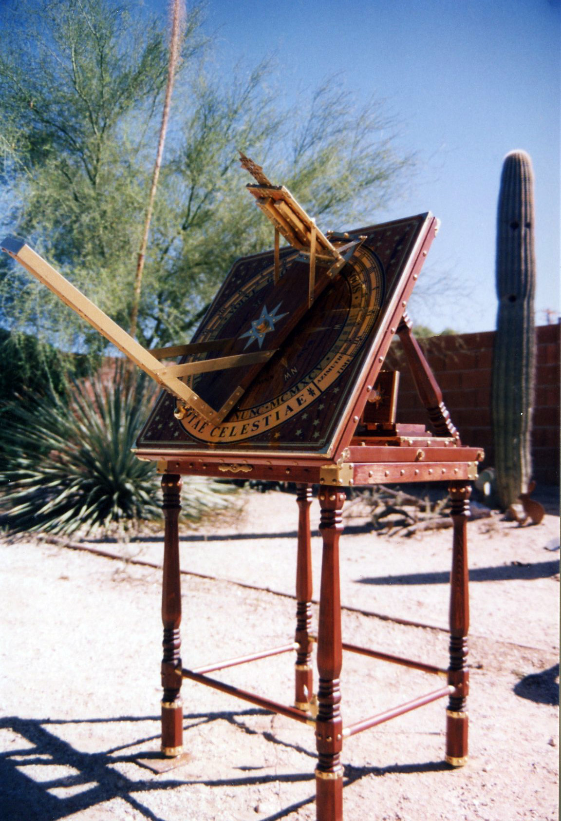 Equatorial Heliochronometer by John Carmichael at Sundial Sculptures